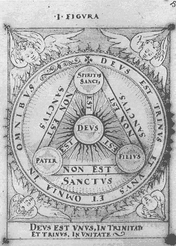 Triangular Shield of the Trinity diagram enclosed within circle.